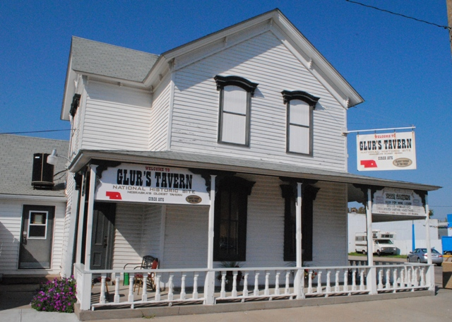 Glur's Tavern in Columbus, NE has been continuously operated since 1876, and is claimed to the oldest bar west of the Mississippi River.